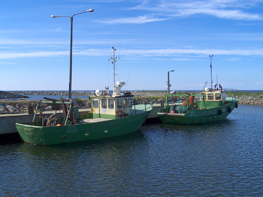 Boats in Marjaniemi, Hailuoto, Finland.